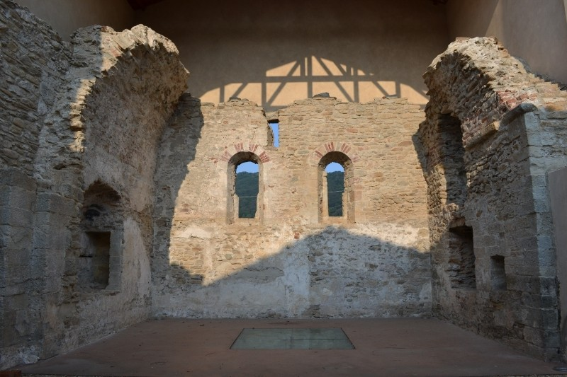 Rifreddo